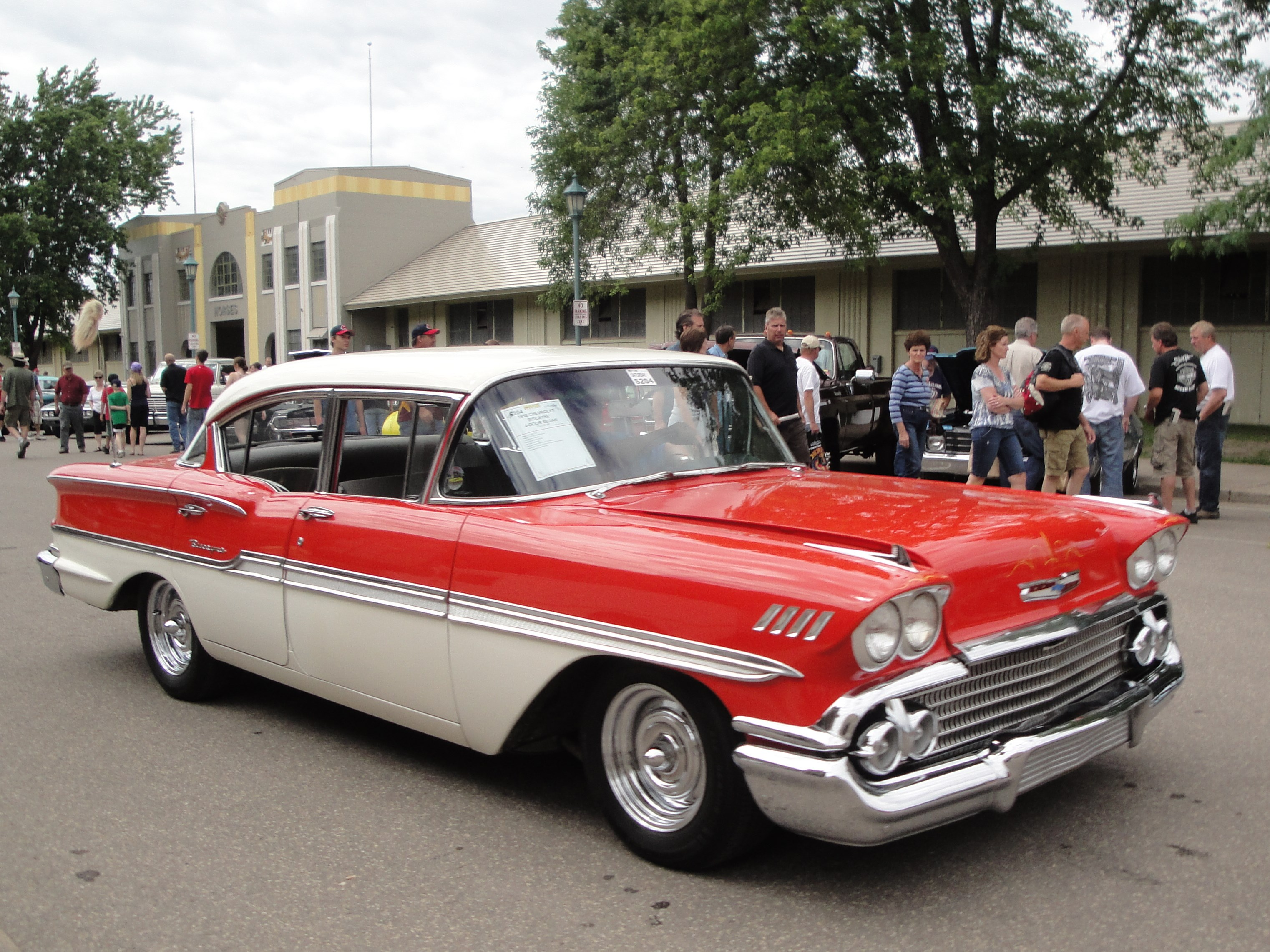 Minnesota Street Rod Association 39th Annual "Back to the Fifties" June 2012 Minnesota State Fairgrounds St. Paul MN